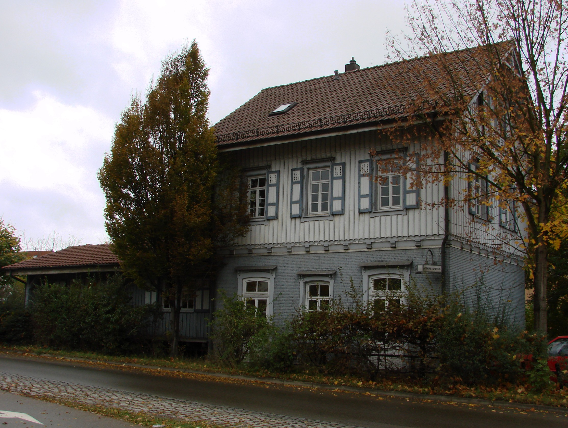 Oberstenfeld, Germany. Old Railway station of 1893